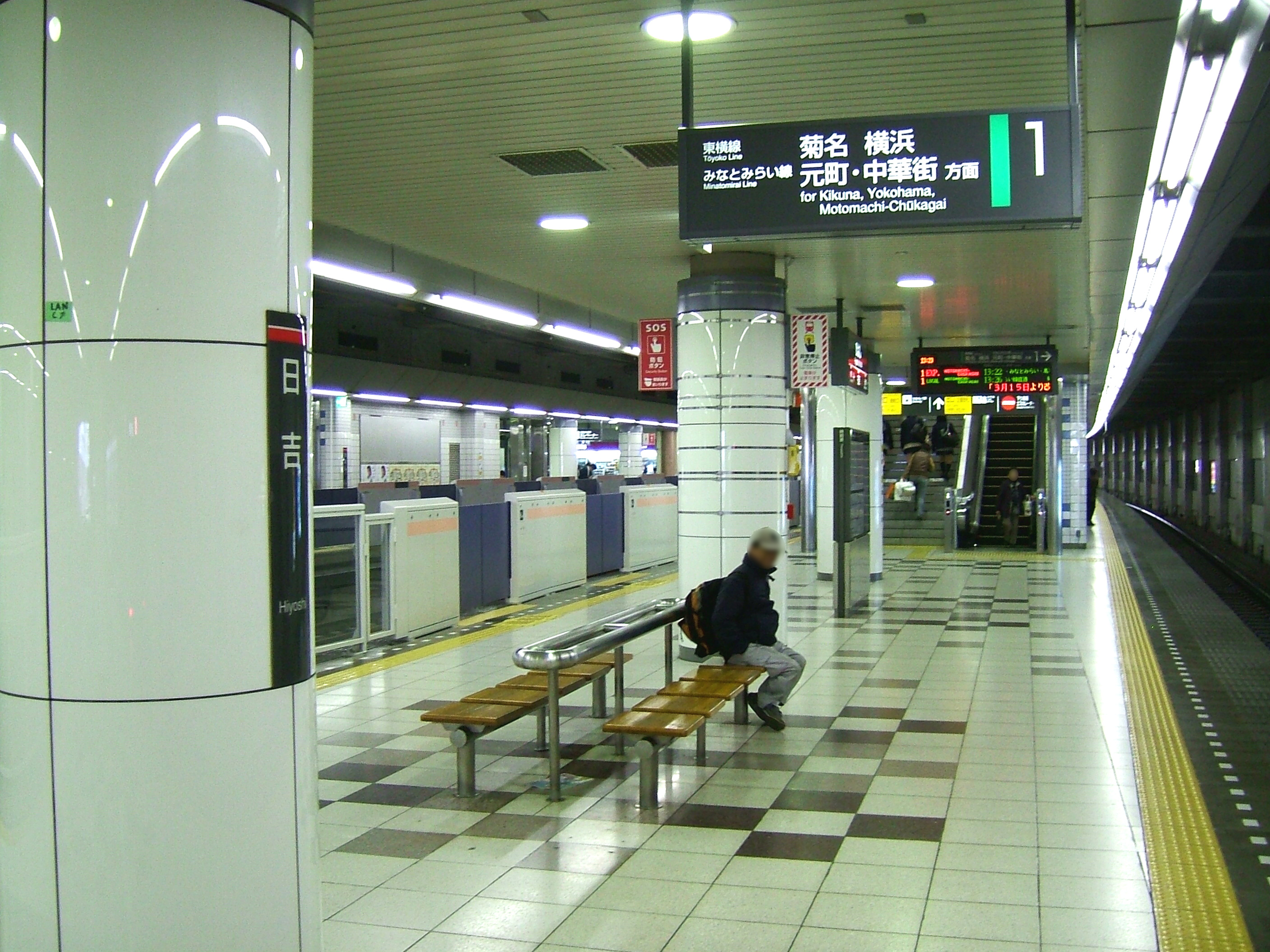 Hiyoshi Station platform (Tōkyū Tōyoko Line)